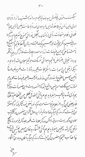 P.47 "Ketab Al-Iqan" by Hussein-Ali, also known as Bahá'u'lláh. First lithography in 1882, Mumbai, India. In this page he quotes the Qur'an 26:2: "یوم یأتی الله فی ظلل من الغمام"